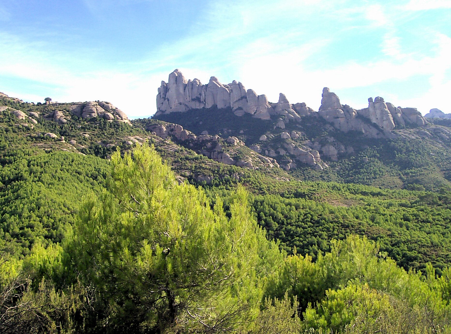 Montserrat - view from westward direction, Catalonia, Spain